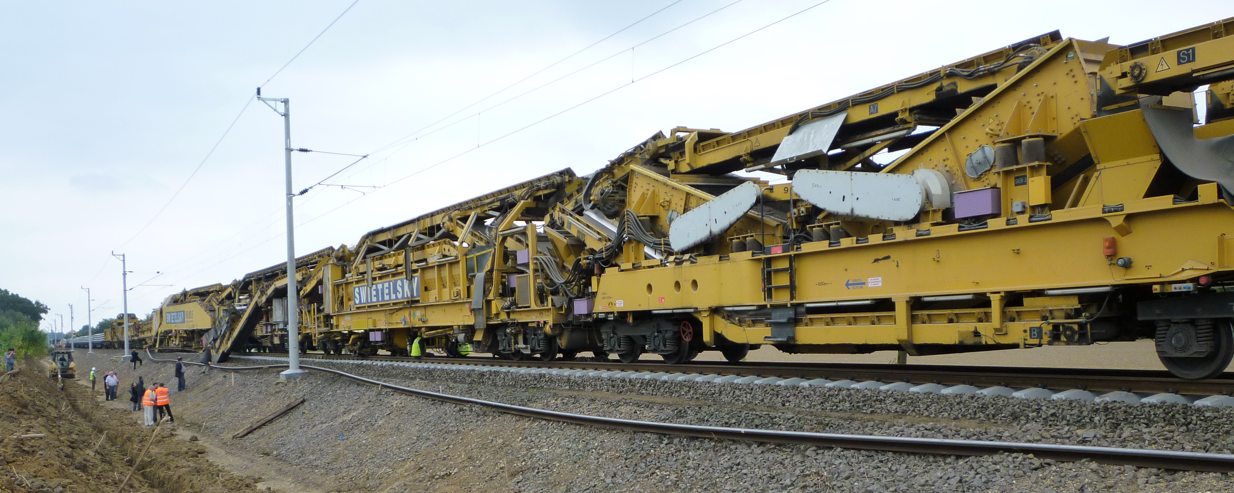 Plasser & Theurer type RU 800 S renewal machine on the Szombathely–Szentgotthárd railway line, Hungary.